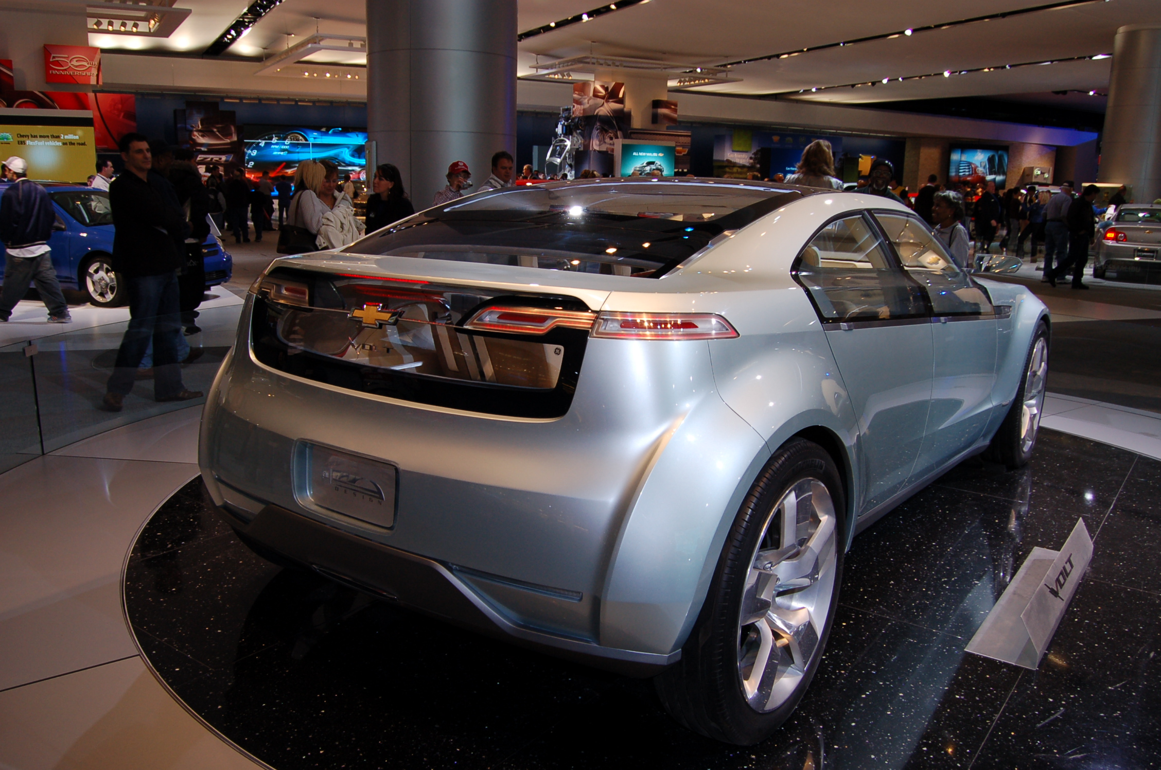 Chevy Volt concept electric car North American International Auto Show Detroit 2008 194 N